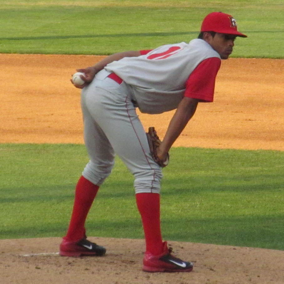 Brooklyn Cyclones vs. Staten Island Yankees - Richmond County Bank Ballpark at St. George - June 28, 2014